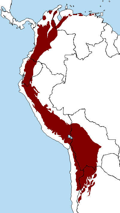 Tropical Andes Hotspot Map - Conservation International